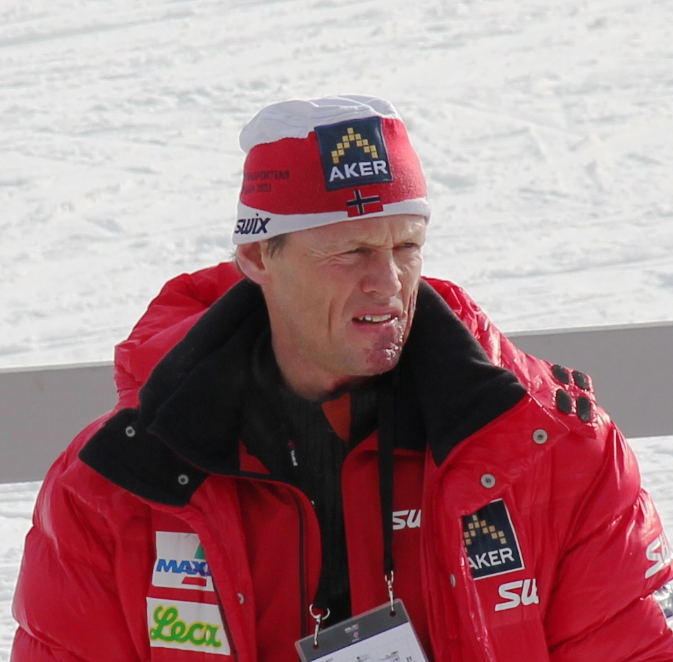 Pål Gunnar Mikkelsplass, serviceman at the FIS Nordic World Ski Championships in Oslo